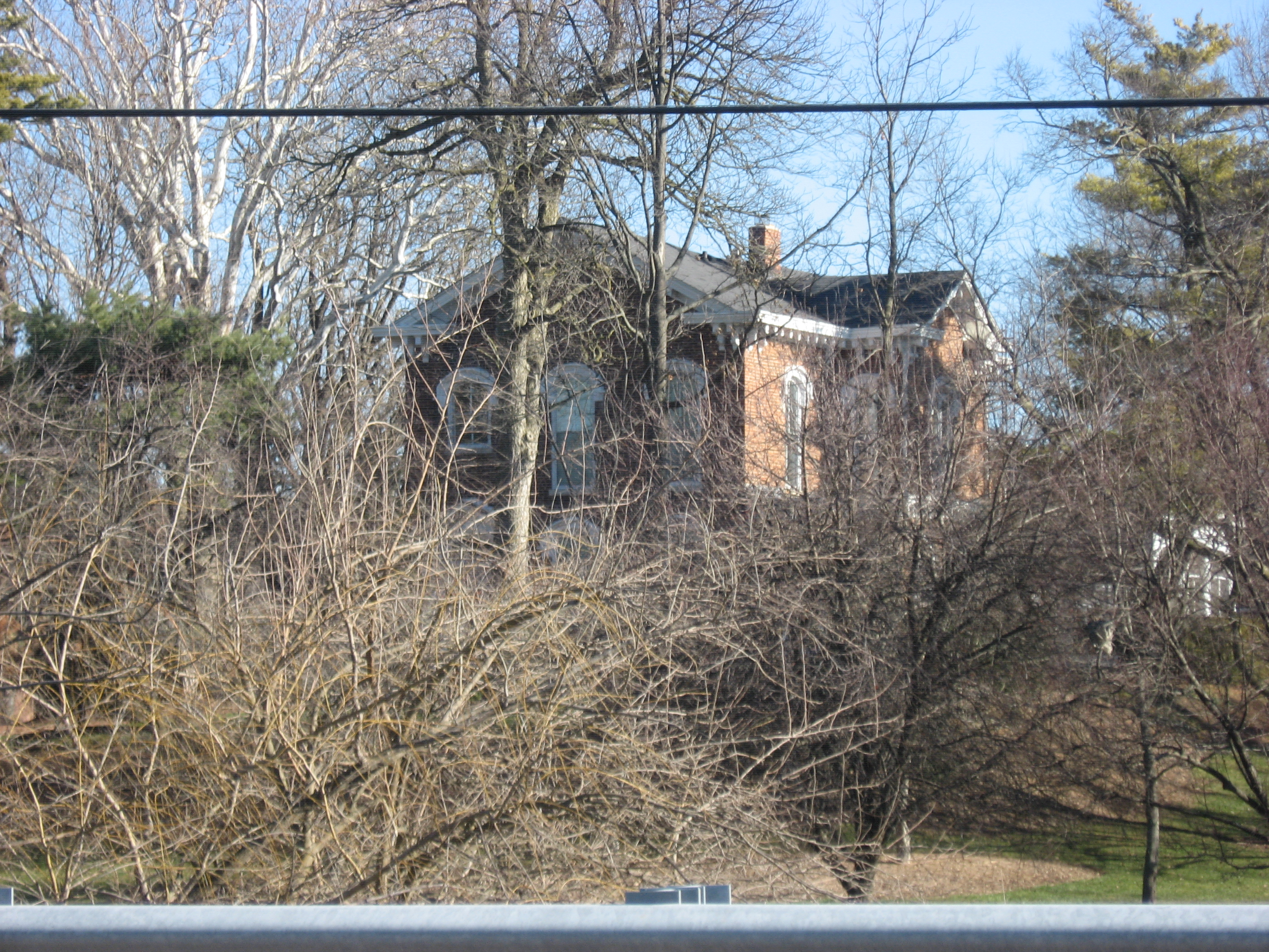 View through the trees of the Jonas Votaw House, located at 1525 S. Meridian Street (U.S. Route 27) in Portland, Indiana, United States. Built in 1875, it is listed on the National Register of Historic Places.